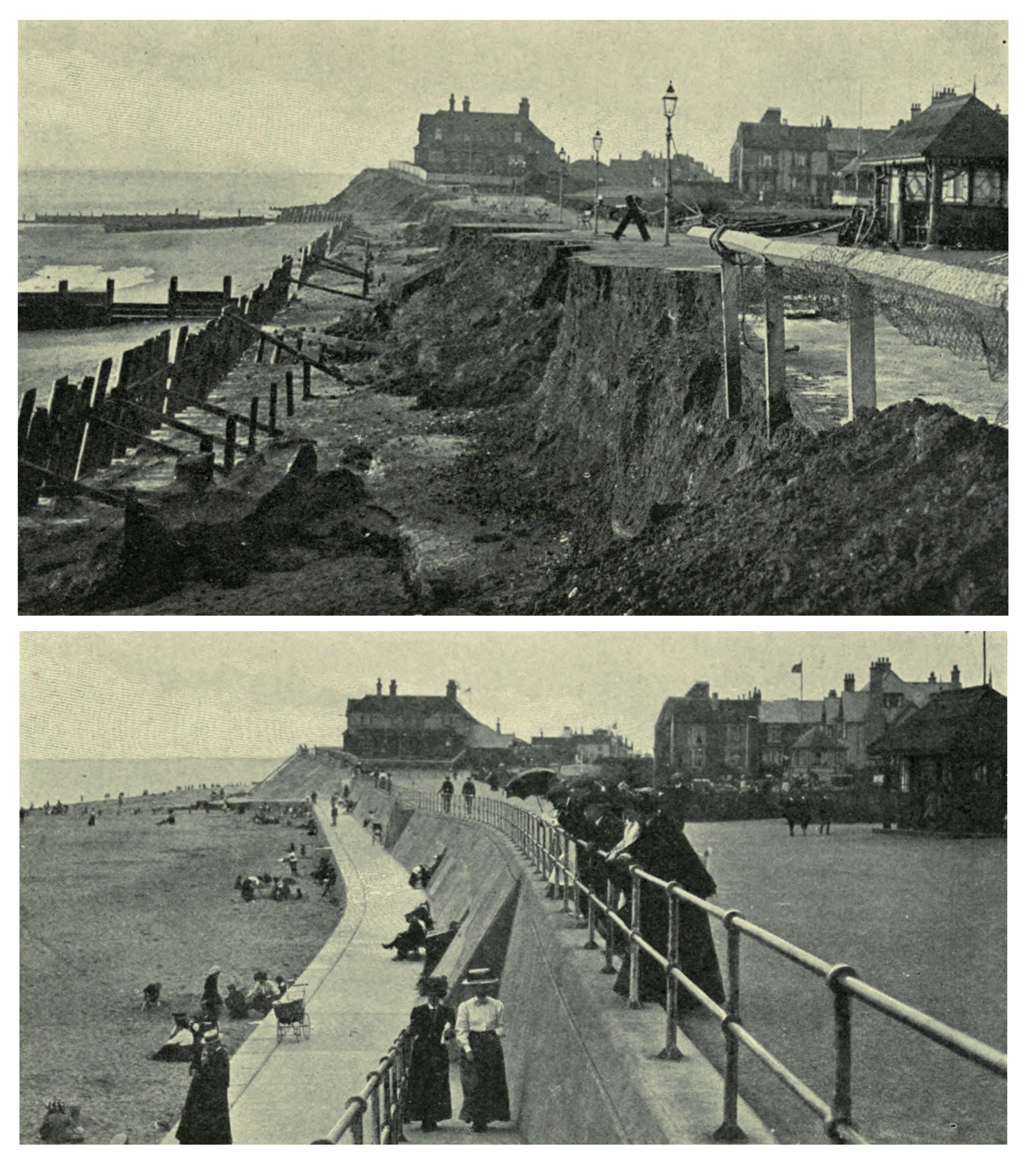 Hornsea seafront 1906 after storm and 1910 after construction of sea wall Collage created from two images Photographer may be R. Williamson